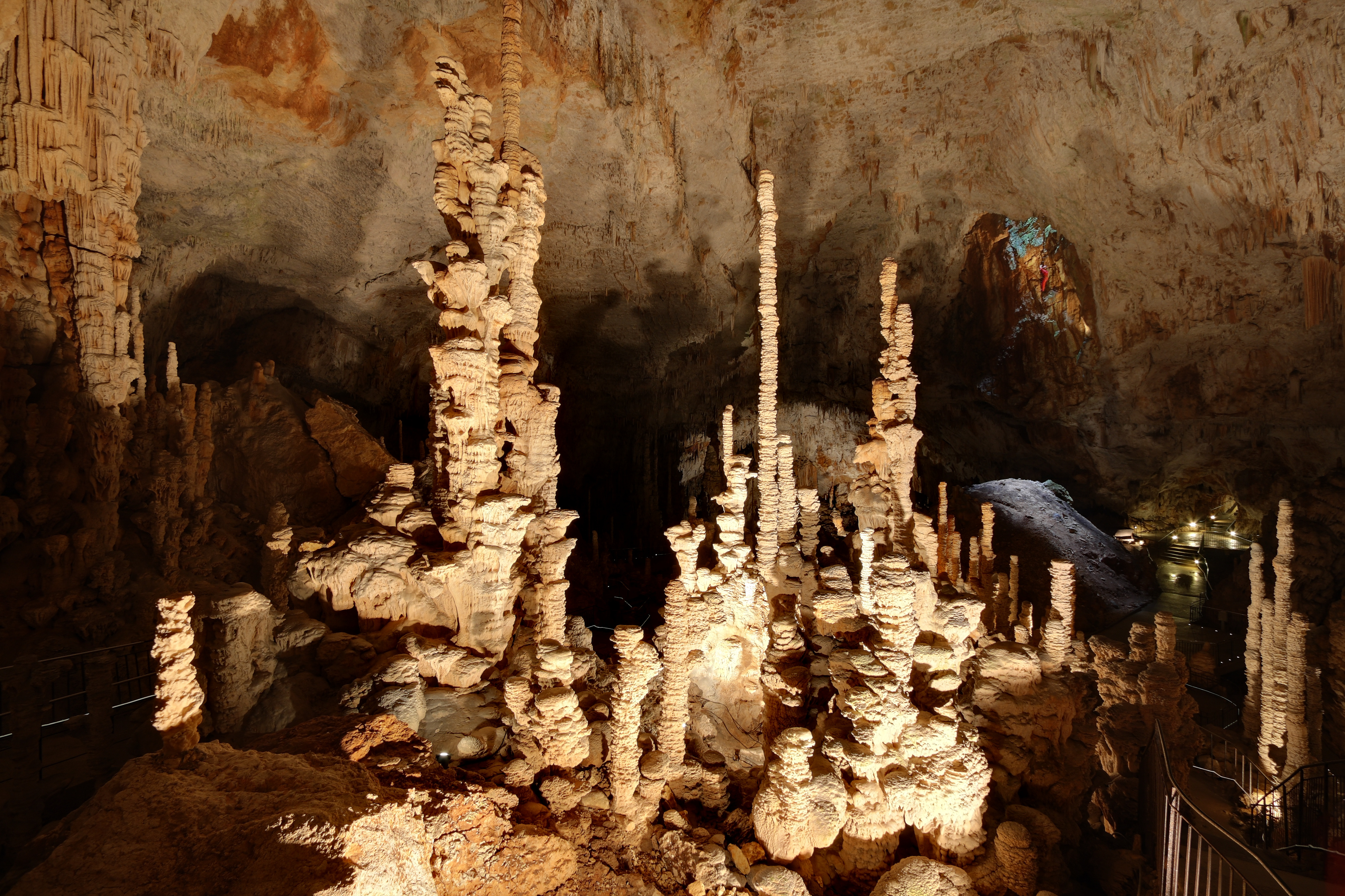 First room of the Aven d'Orgnac cave, Ardèche, France.